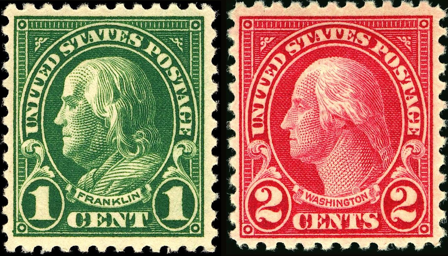 US Postage stamps, 1c and 2c, 1922 issues.Composite photo